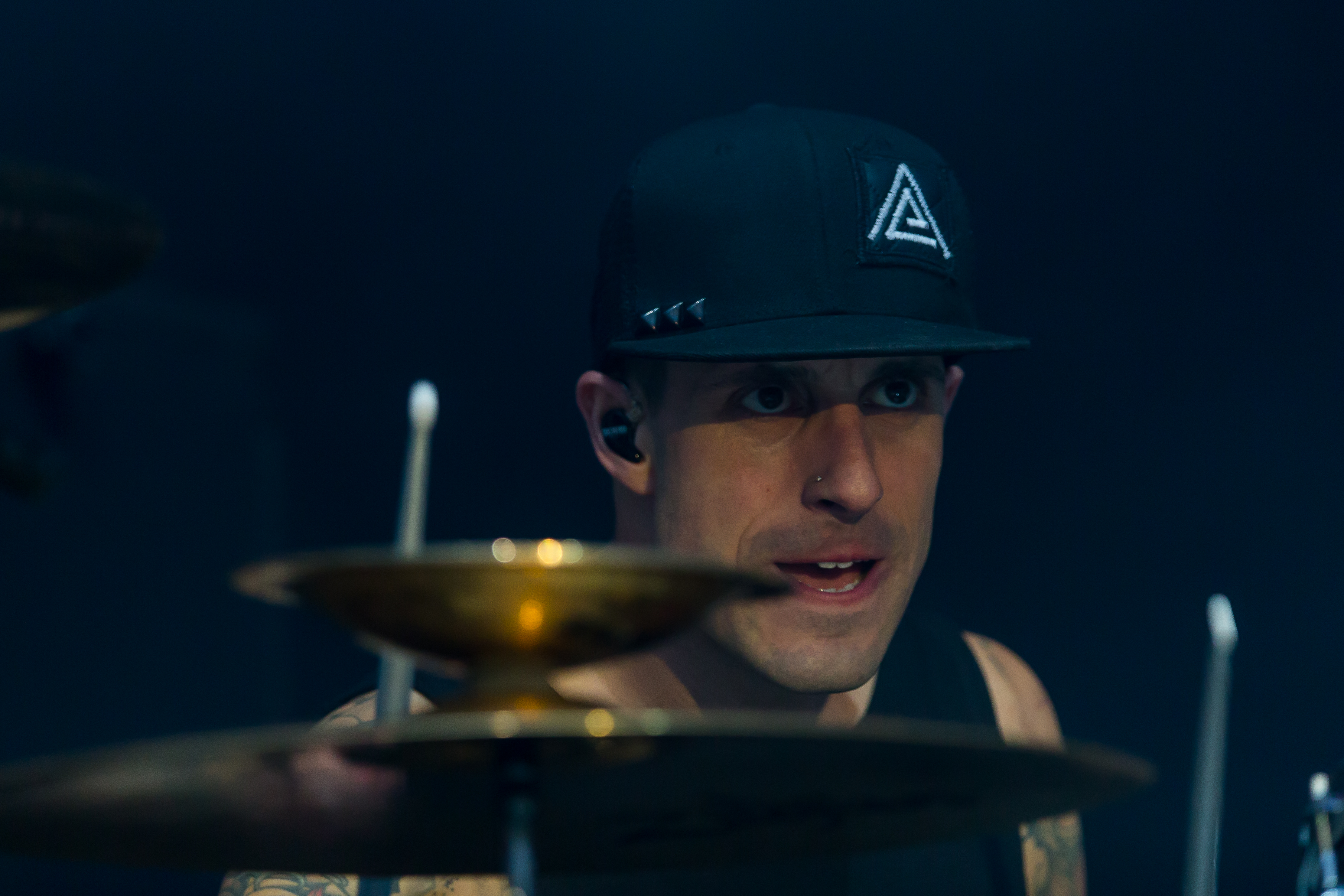 Sum 41 during Rocco del Schlacko 2016 at , Püttlingen, Saarland, Germany on 2016-08-11, Photo: Sven Mandel